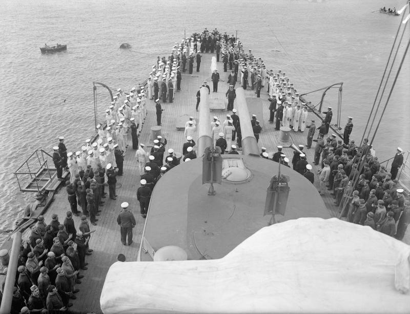 Greek Independence Day in the Greek Navy. 23 February 1943, Port-said, Greek Independence Day, March 25; Will Be Widely Celebrated. Sailors Serving in the Greek Section of the Allied Navies Always Remember That Day. Rear Admiral a Sakellariou, Commander in Chief of the Royal Hellenic Navy Flies His Flag in the Cruiser Hhms Giorgios Averoff. A general view from the top of the gun turret looking down on to morning divisions on the quarterdeck of HHMS GIORGIOS AVEROFF.